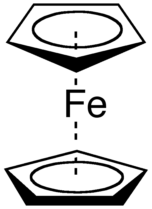 Self-made in ChemDraw 8.0 and Photoshop Elements 3.0 for Mac. Ben 19:29, 26 February 2006 (UTC)